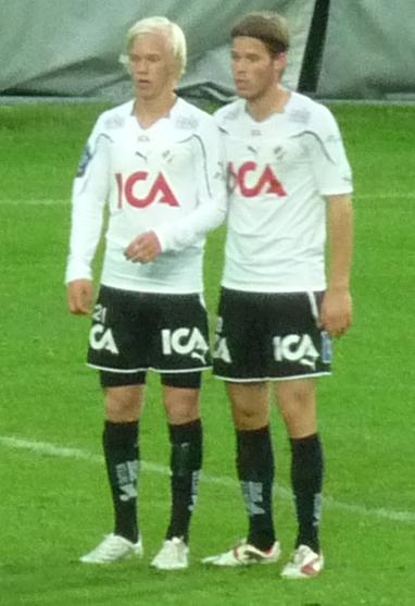 Kristoffer Thydell (left) Emil Salomonsson (right)